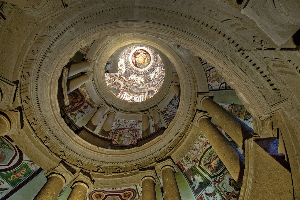 The "Scala Regia" by Vignola at the "Palazzo Farnese", Caprarola (Italy)